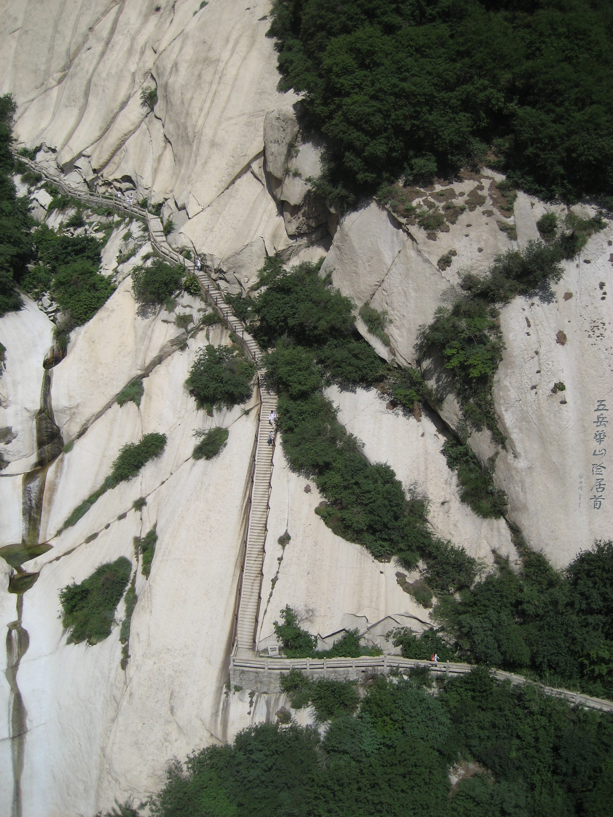 A path up Mount Hua